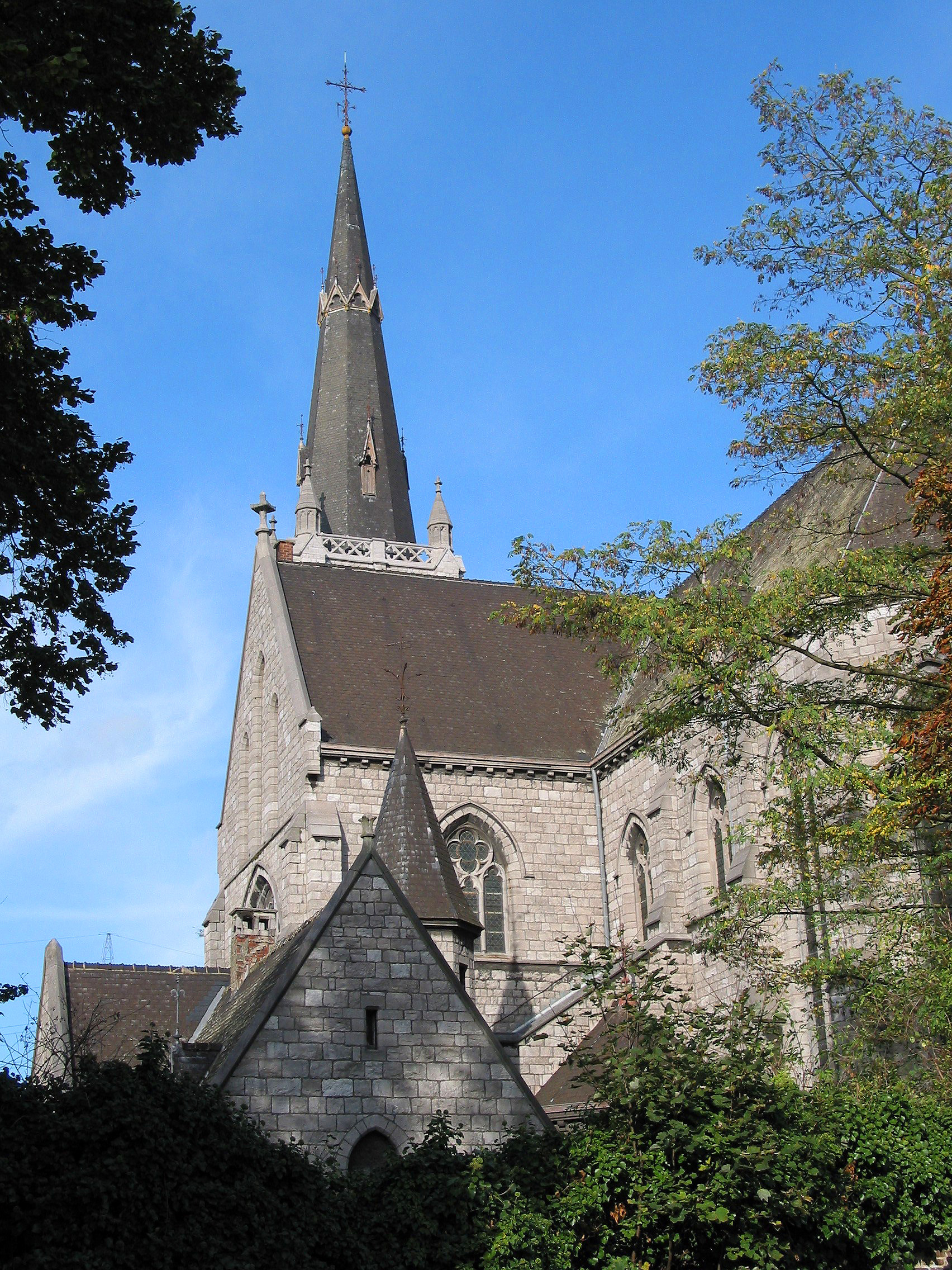 Marchienne-au-Pont (Belgium), the Holy Virgin church.